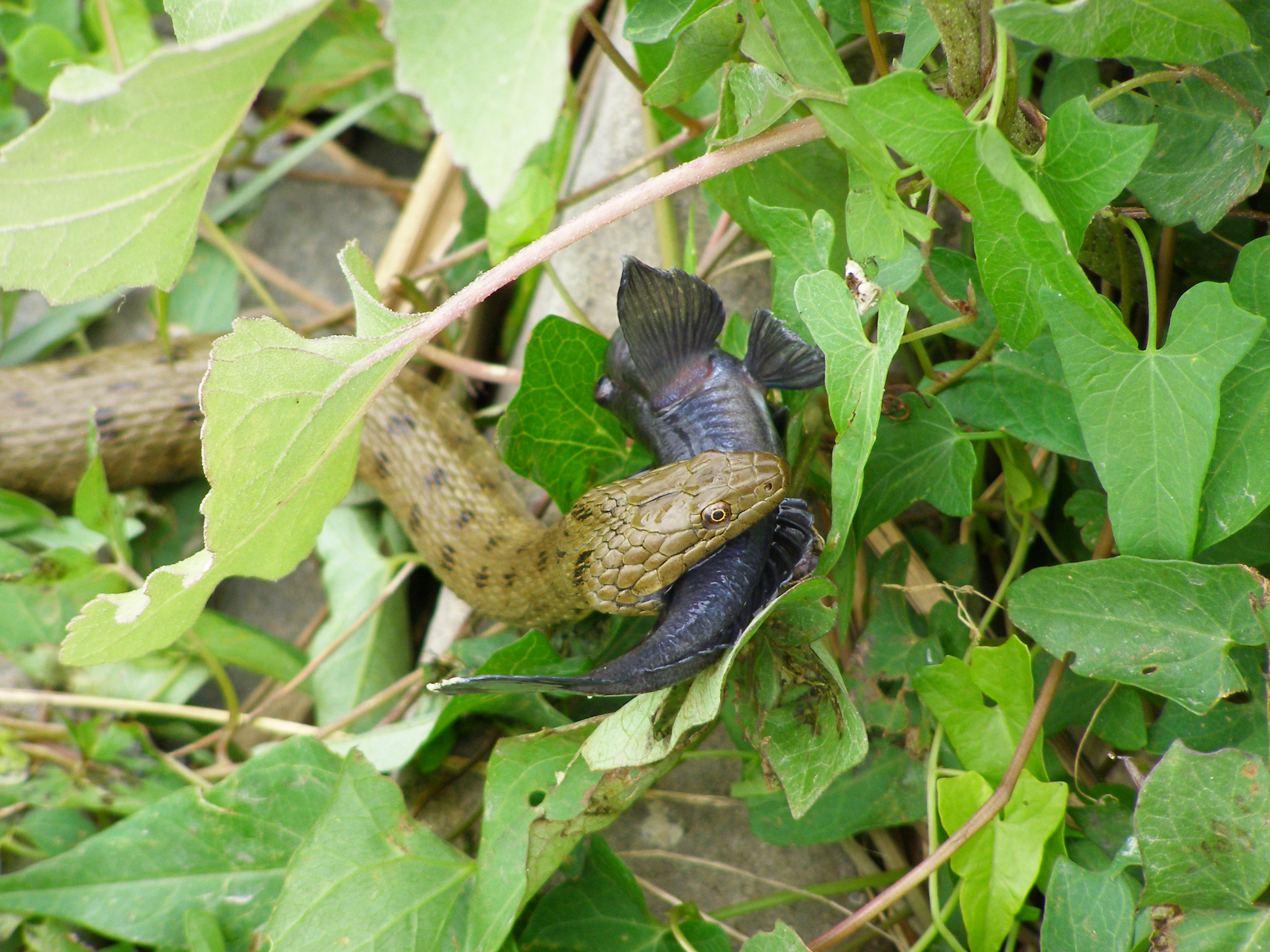 Dice Snake (Natrix tessellata) capturing a Gobius fish